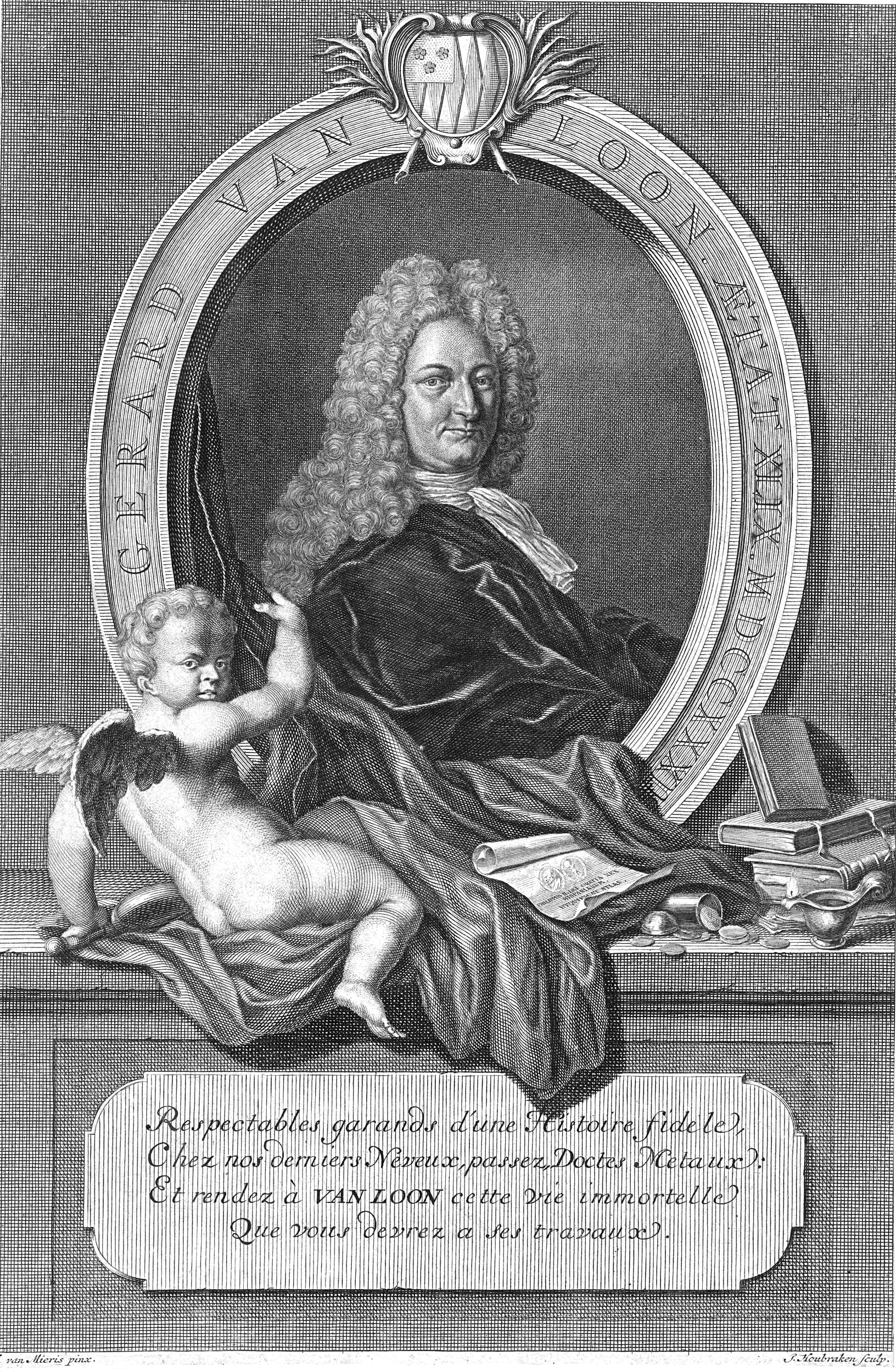 Gerard van Loon engraving on paper 1732 - 1780